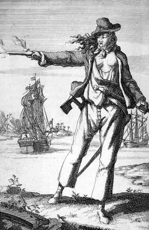 Anne Bonny